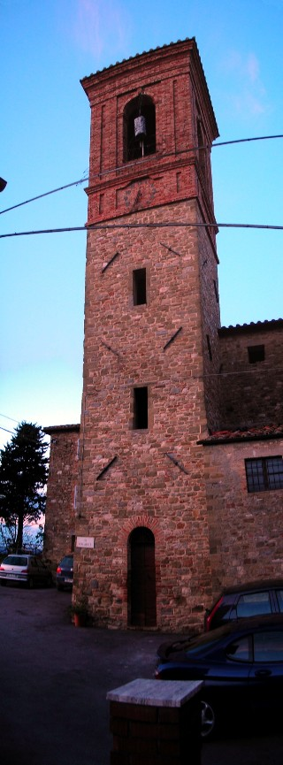 Main tower of Civitella Benazzone, Perugia, Umbria, Italy